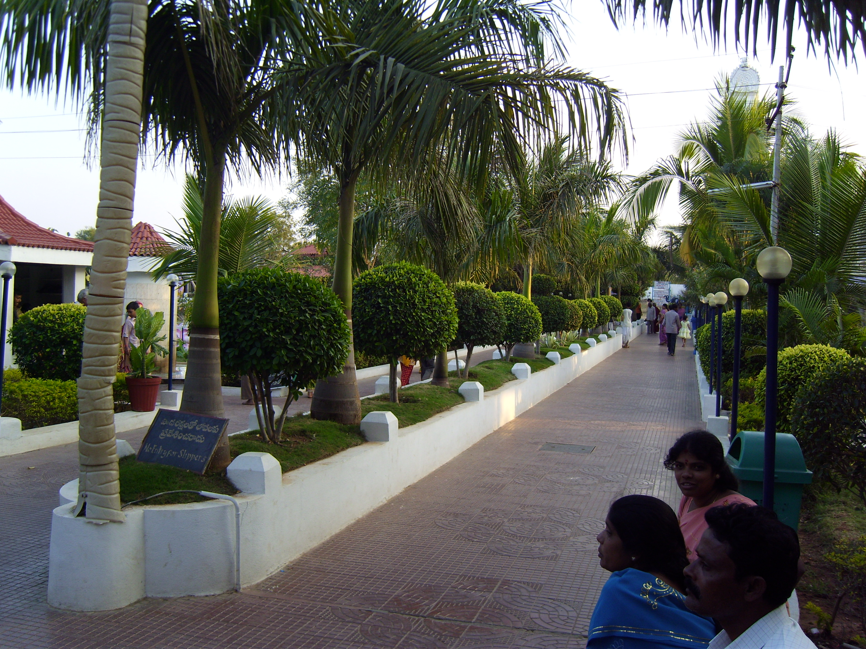 Ratnalayam Venkateswara Temple